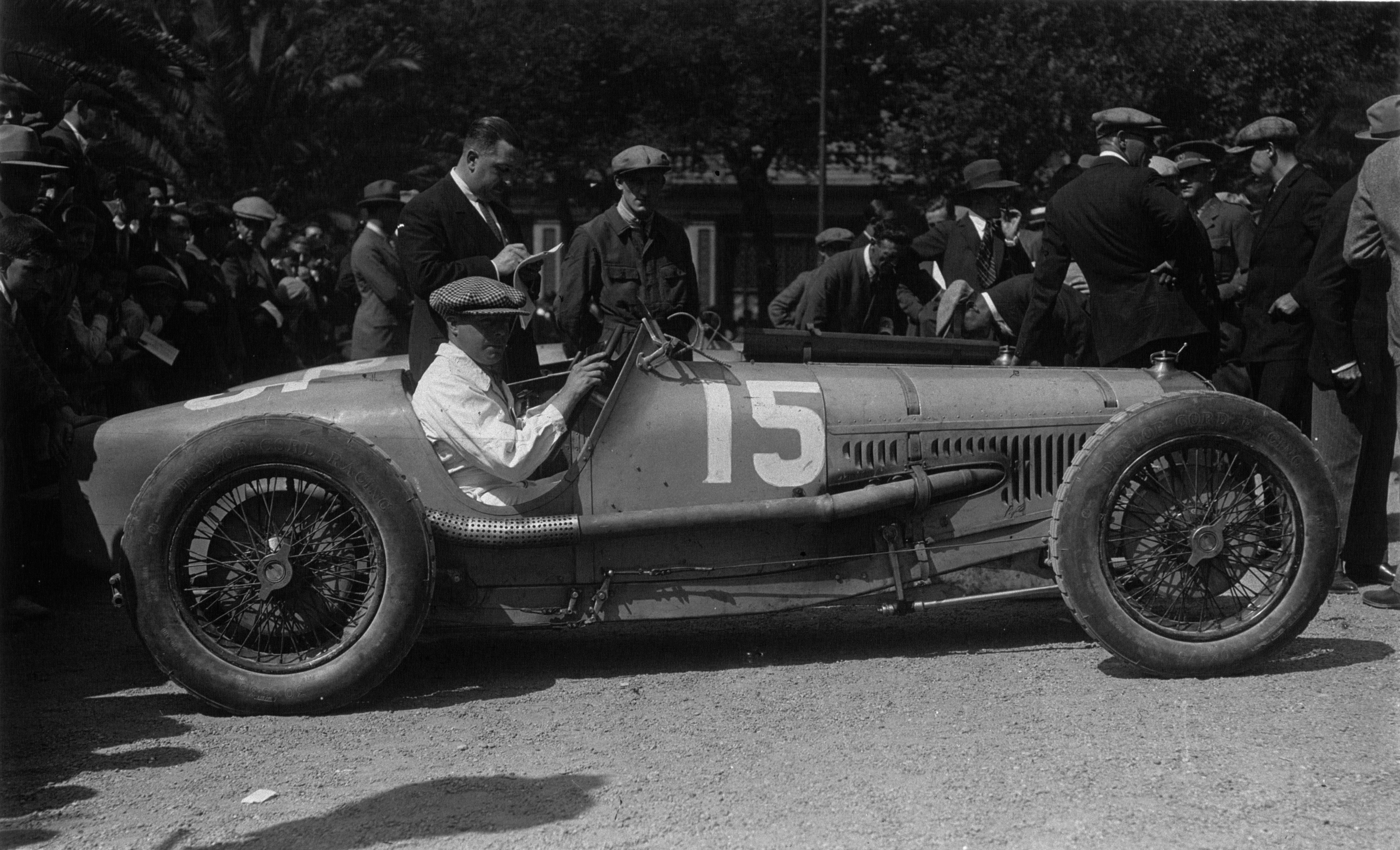 Edmond Bourlier at the 1926 San Sebastián Grand Prix